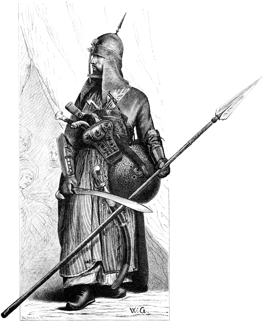 A Mamluk soldier in full armour